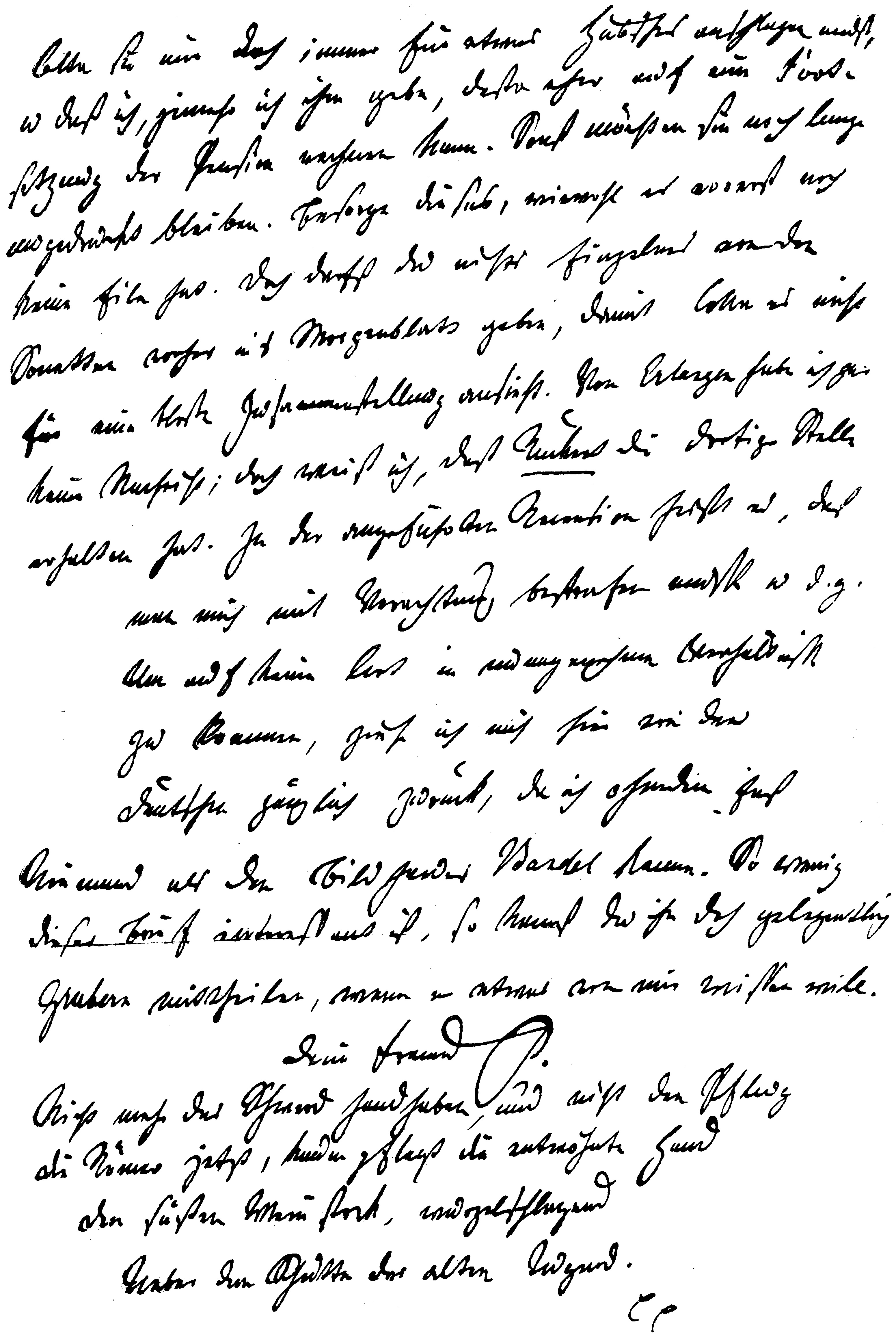 August von Platen-Hallermünde, handwritten letter from Rome, december 2, 1826. Original in the Bayerische Staatsbibliothek, Munich. — Note: This is a black-and-white scan, but it’s not suitable to upload it as PNG file because it’s over 12 megapixels in size. Therefore I have converted it to grayscal for now and saved it as high-quality, nearly loosless JPEG file for now.